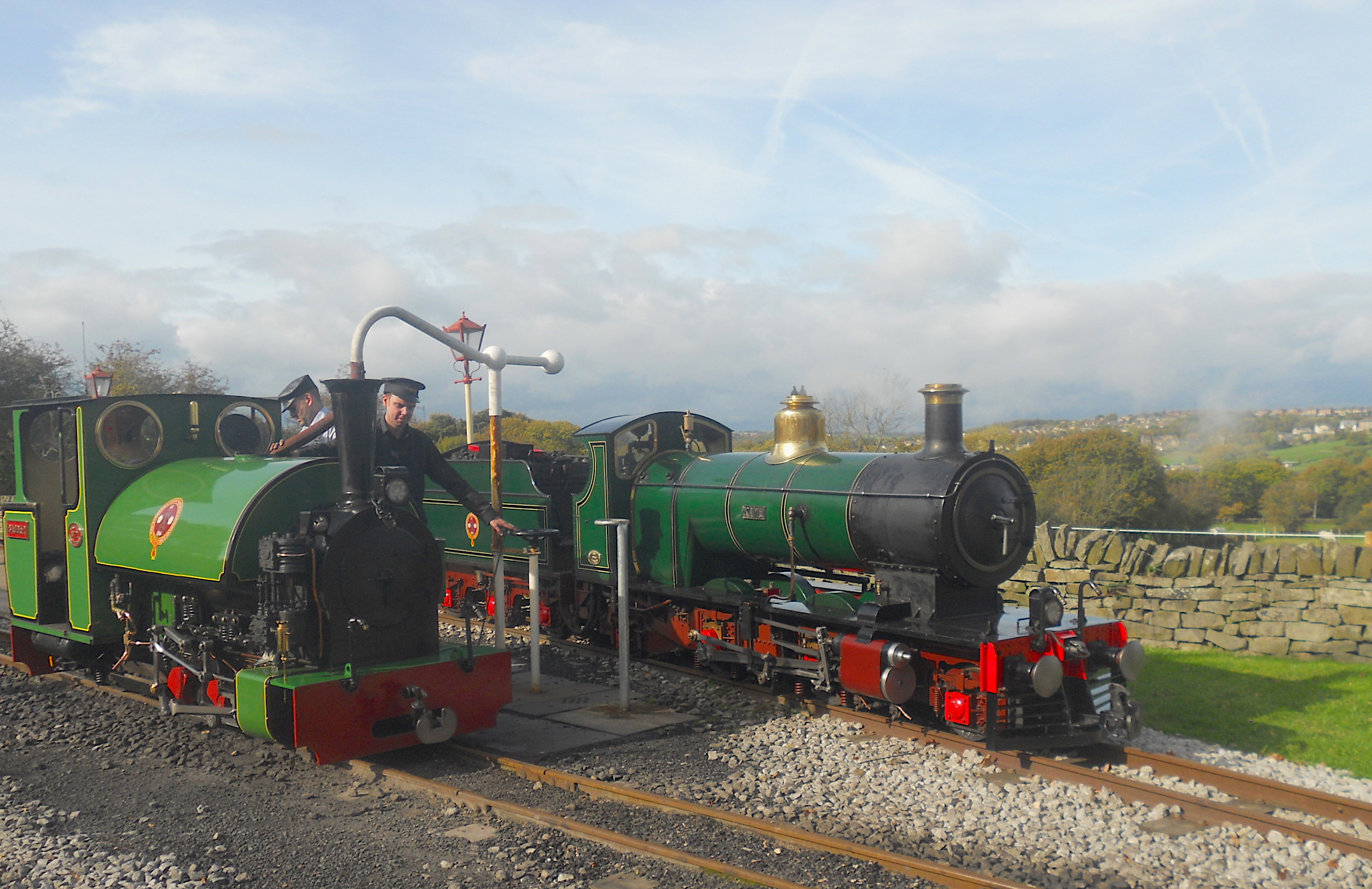 Both Kirklees Light Railway 0-6-2ST No. 2 'Badger' and Trevor Guest 2-4-2 'Katie' stand together, side by side, at Shelley